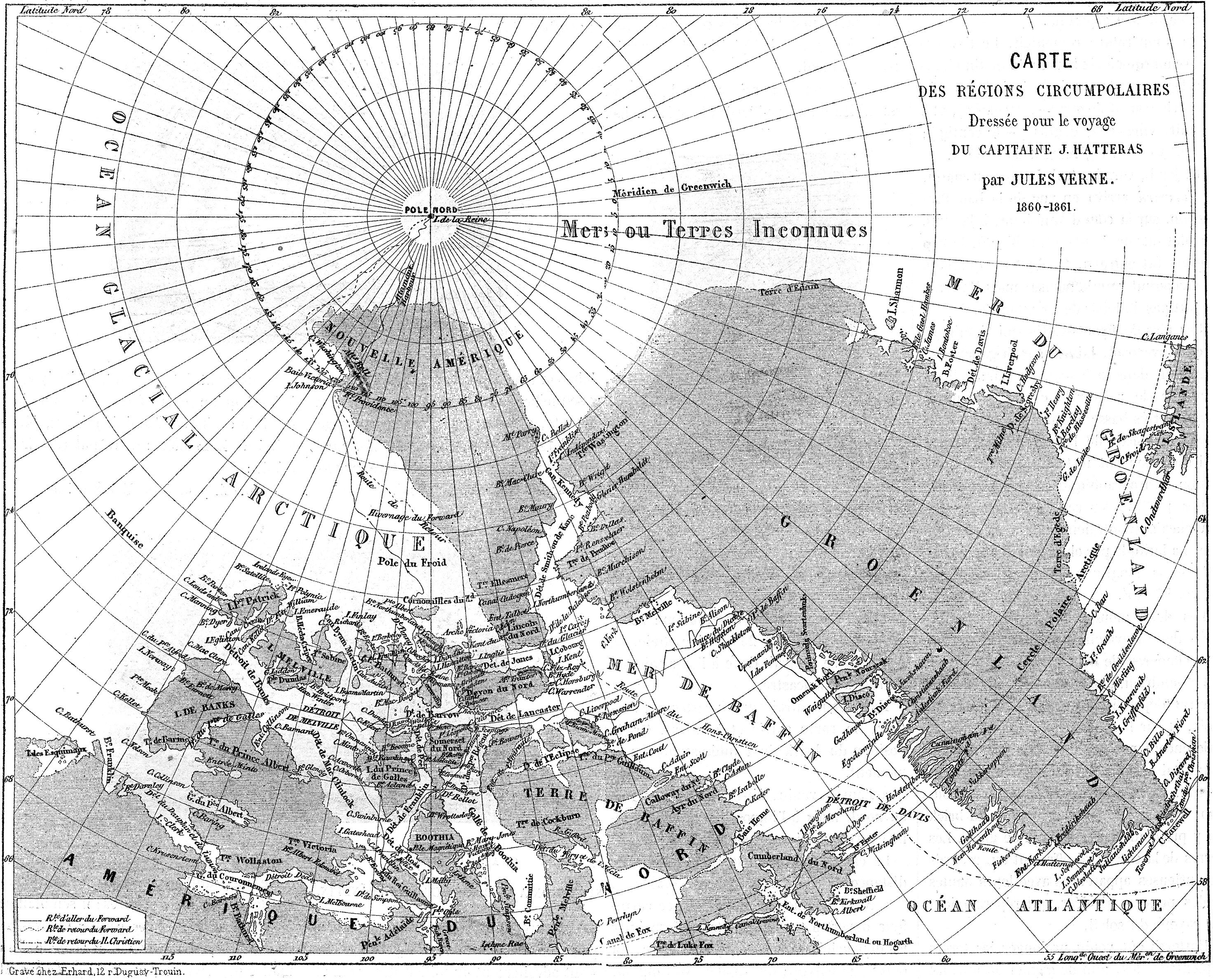 Map of the Hatteras expedition from the novel "Journeys and Adventures of Captain Hatteras" (Voyages et aventures du capitaine Hatteras) by Jules Verne (1864-66). Scan from the original publication.